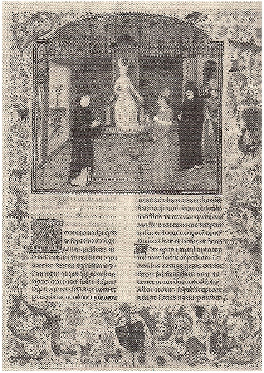 Petrarch, Secretum. Brugge, Grootseminaire. MS 113/78 fol. Ir. Made in 1470 for Jan Crabble